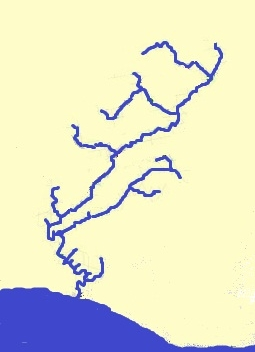 Big Creek (alternately Big Otter Creek is a watershed with significant old growth Carolingian Forest that empties into Lake Erie at Port Burwell.